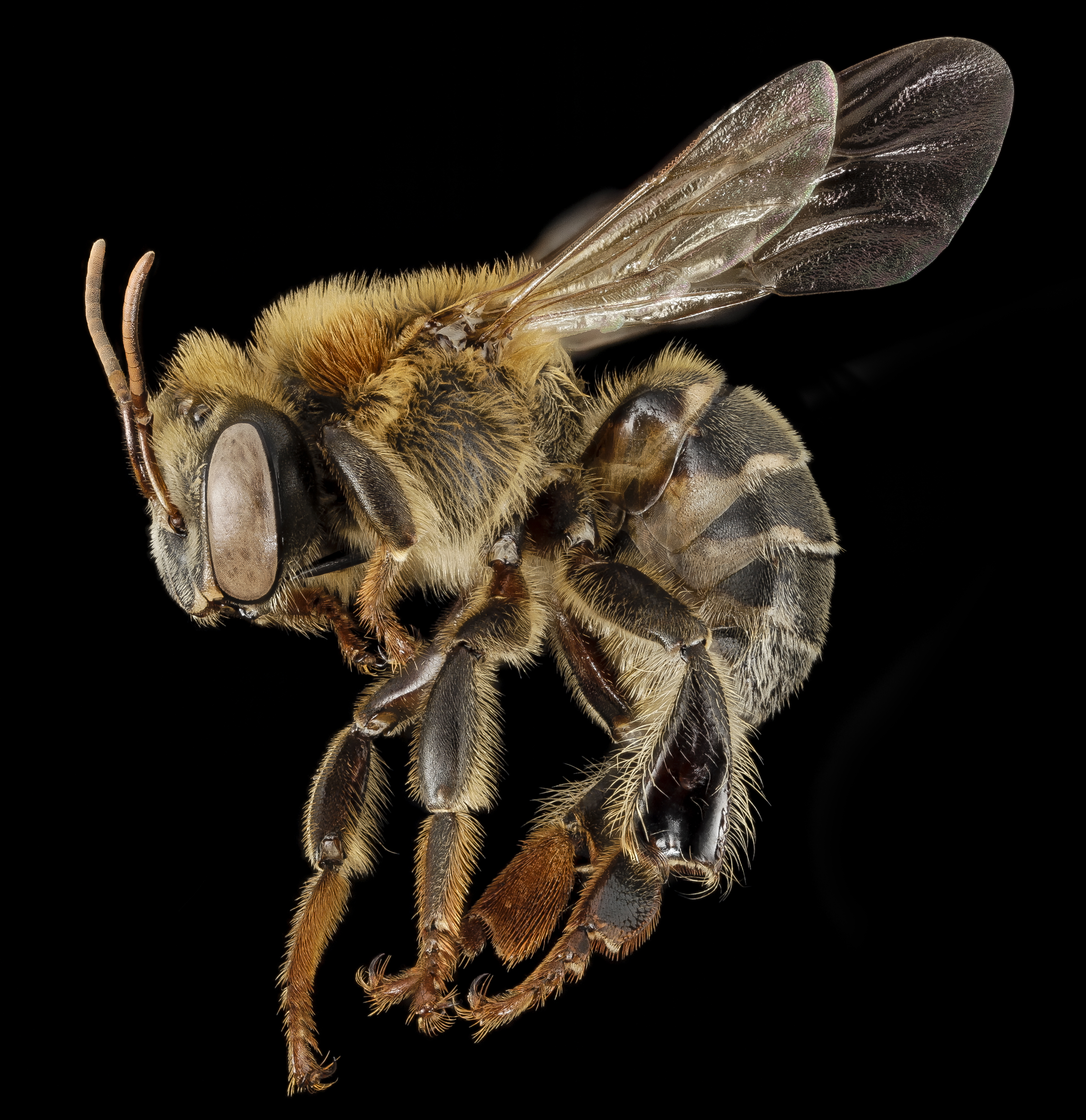 Melapona species (likely Melipona eburnean, but this needs to be verified by sam) , La Legítima, specimen collected by German Perilla in Peru